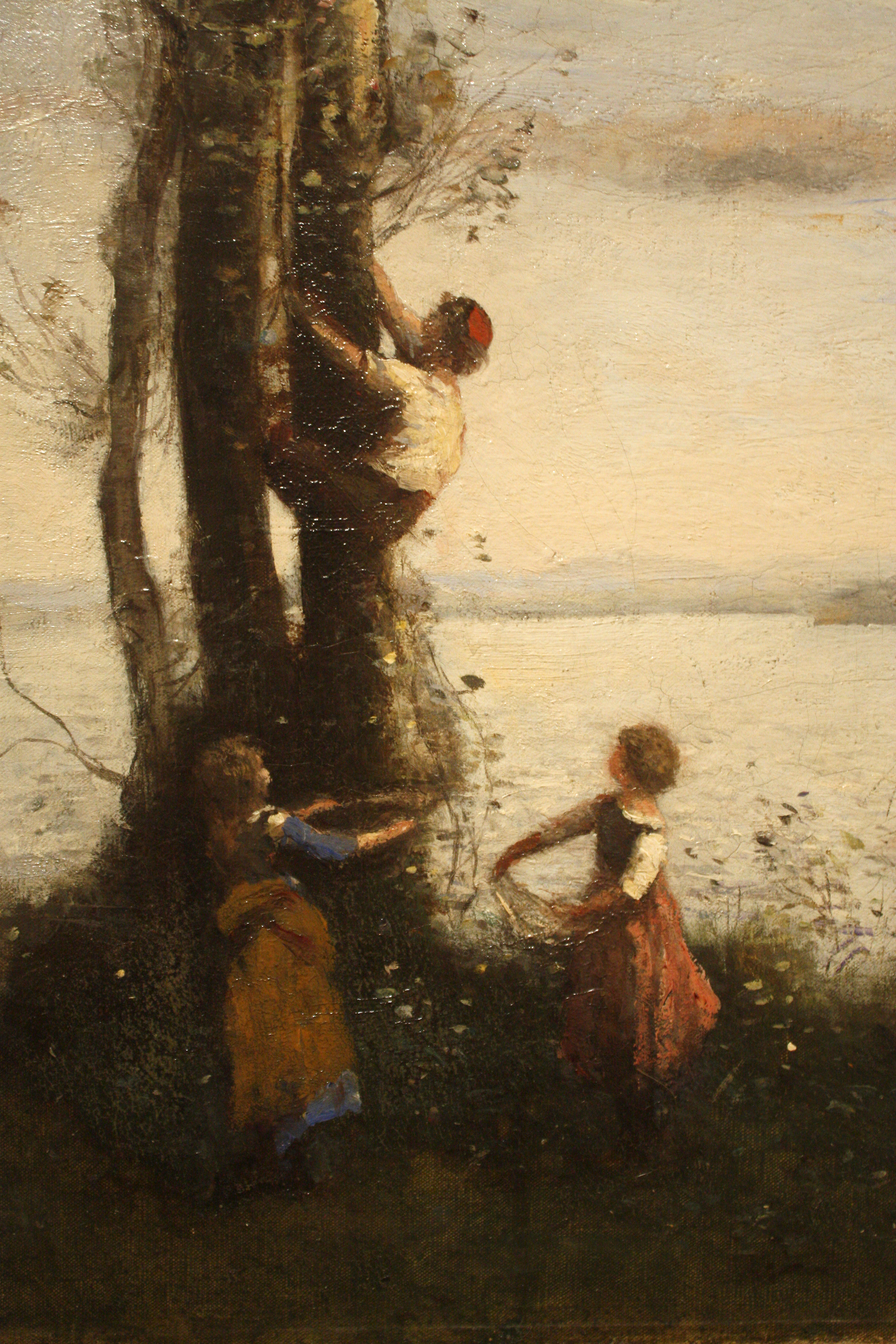 detail. Possibly a reworking of Souvenir of Mortefontaine (1864) and Souvenir of the Lake Nemi Region (1865)